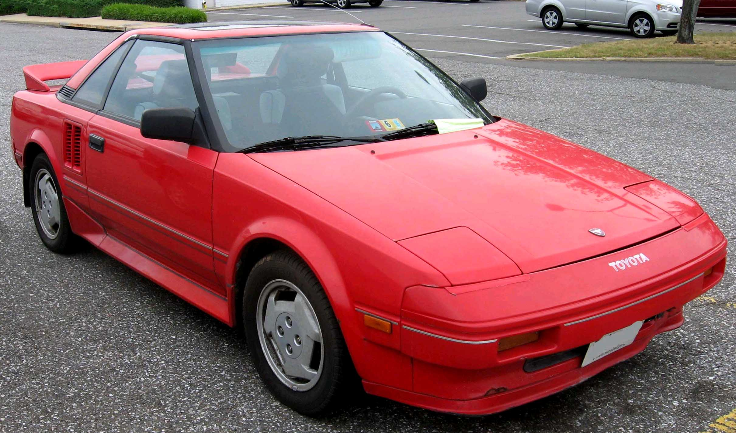 1984-1989 Toyota MR-2 photographed in Fort Washington, Maryland, USA.